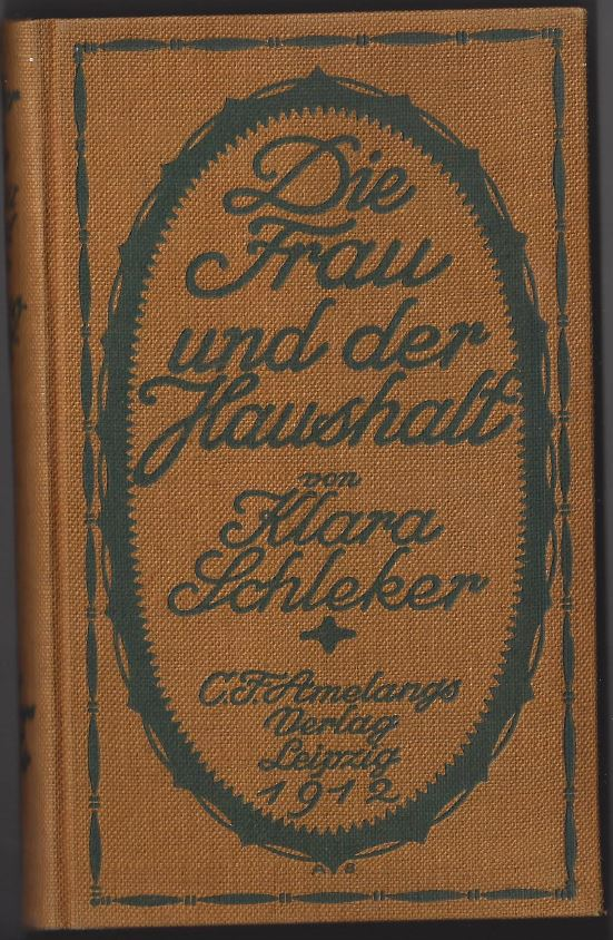 Cover Klara Schleker 1912